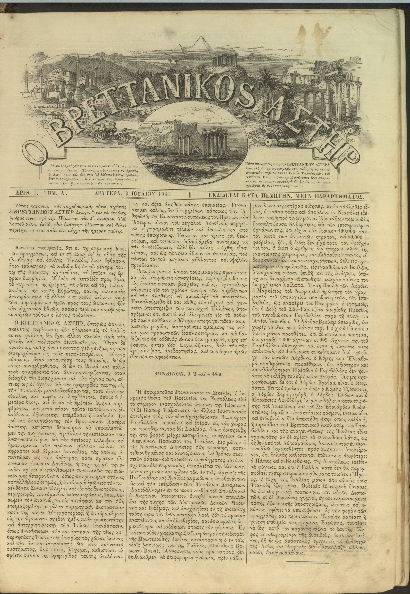 Vrettanikos Astir (British Star), weekly Greek magazine published in London, first page of the first issue, 9 July 1860